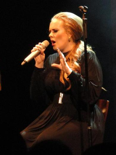 Adele - Seattle, WA - 8/12/2011